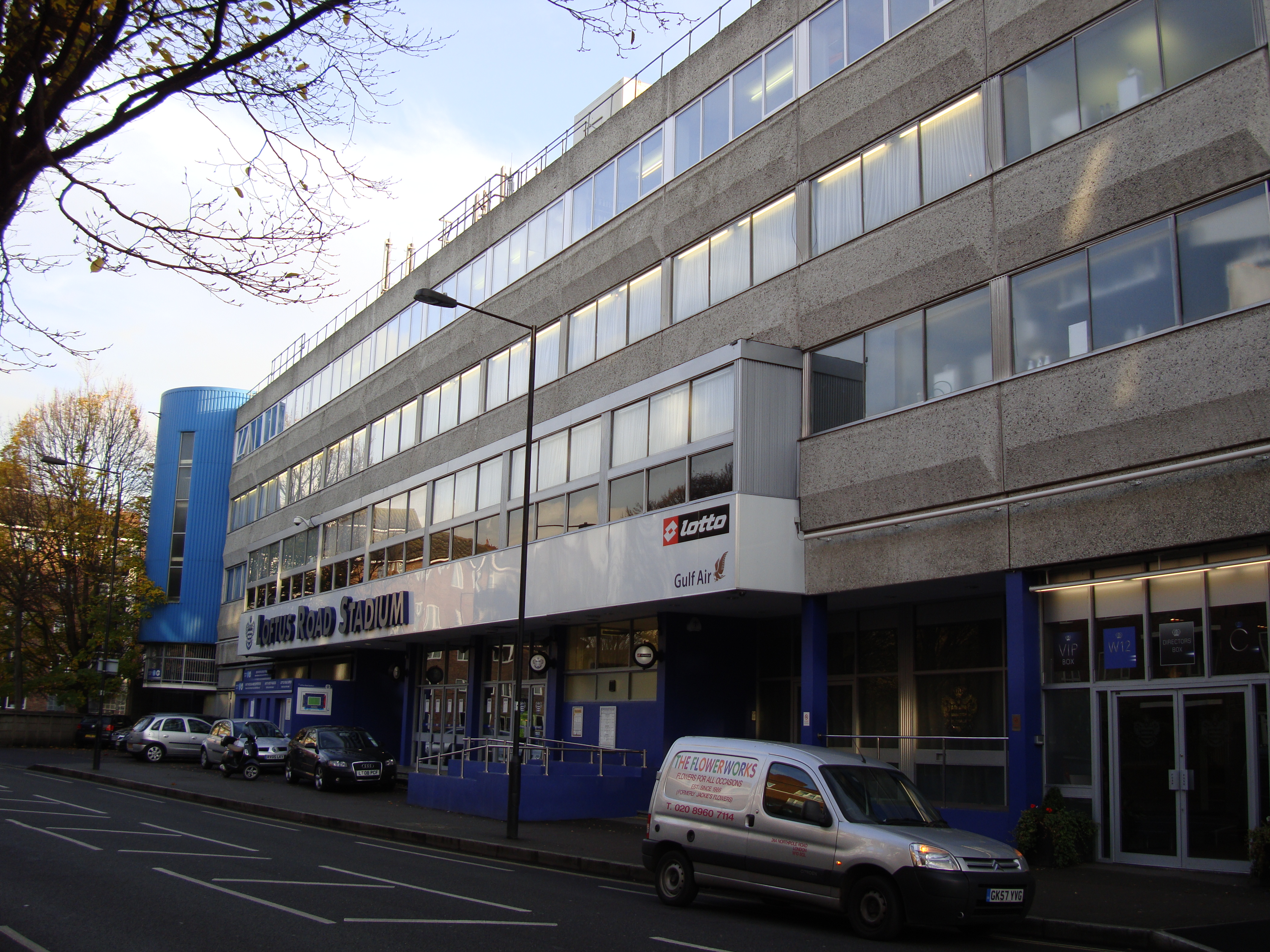 Photograph of Loftus Road Stadium, South Africa Road Entrance